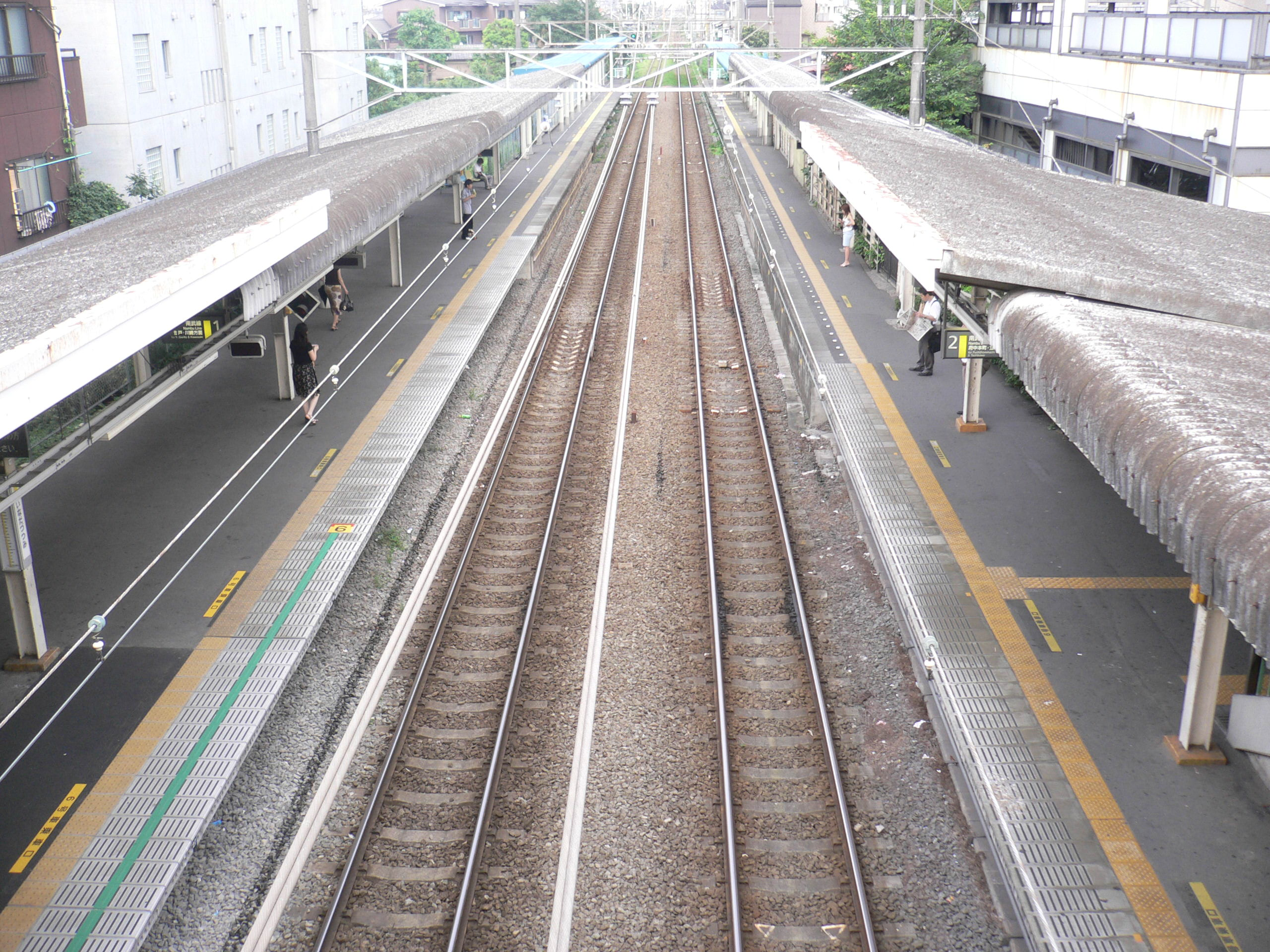 Inadadutsumi Station, Tama W, Kawasaki C, Kanagawa P.